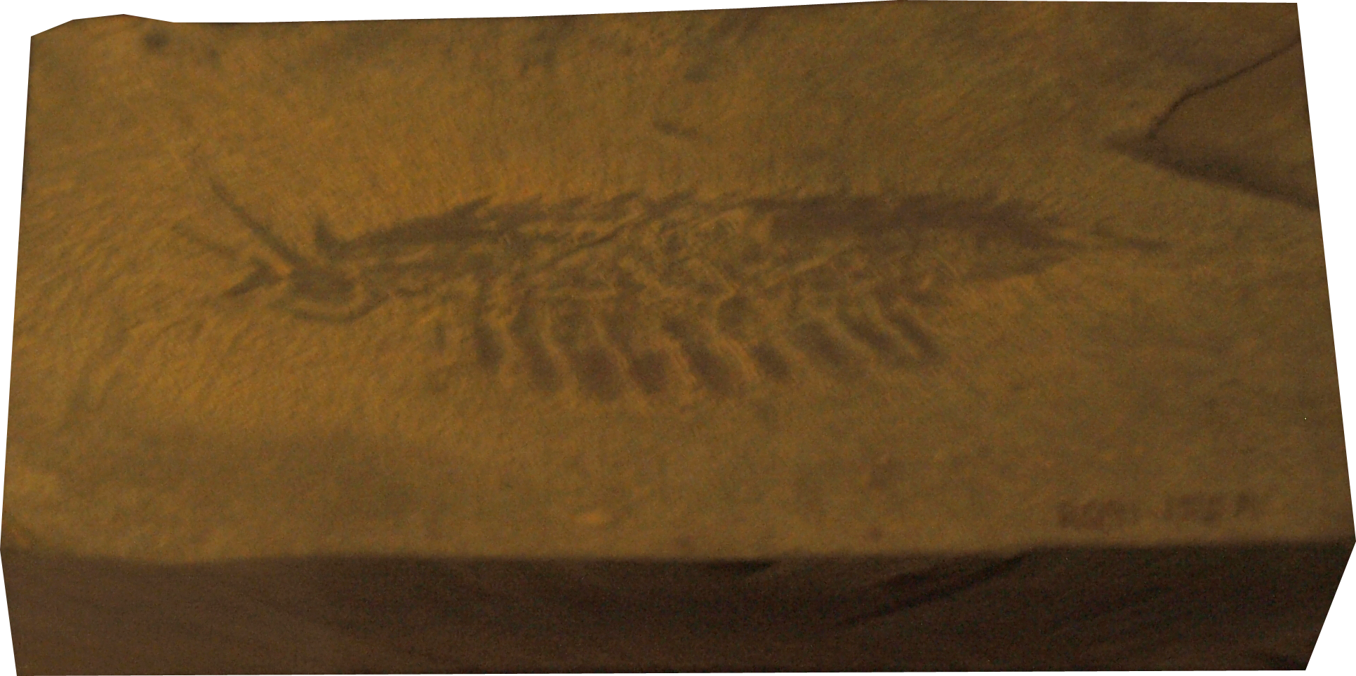 Leanchoilia superlata on display at the Royal Ontario Museum, Toronto. Background knocked out from image.